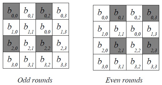 Extracted bytes in LEX cipher